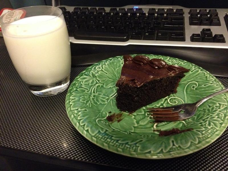 Joffre is a Romanian chocolate cake created in honor of French general.